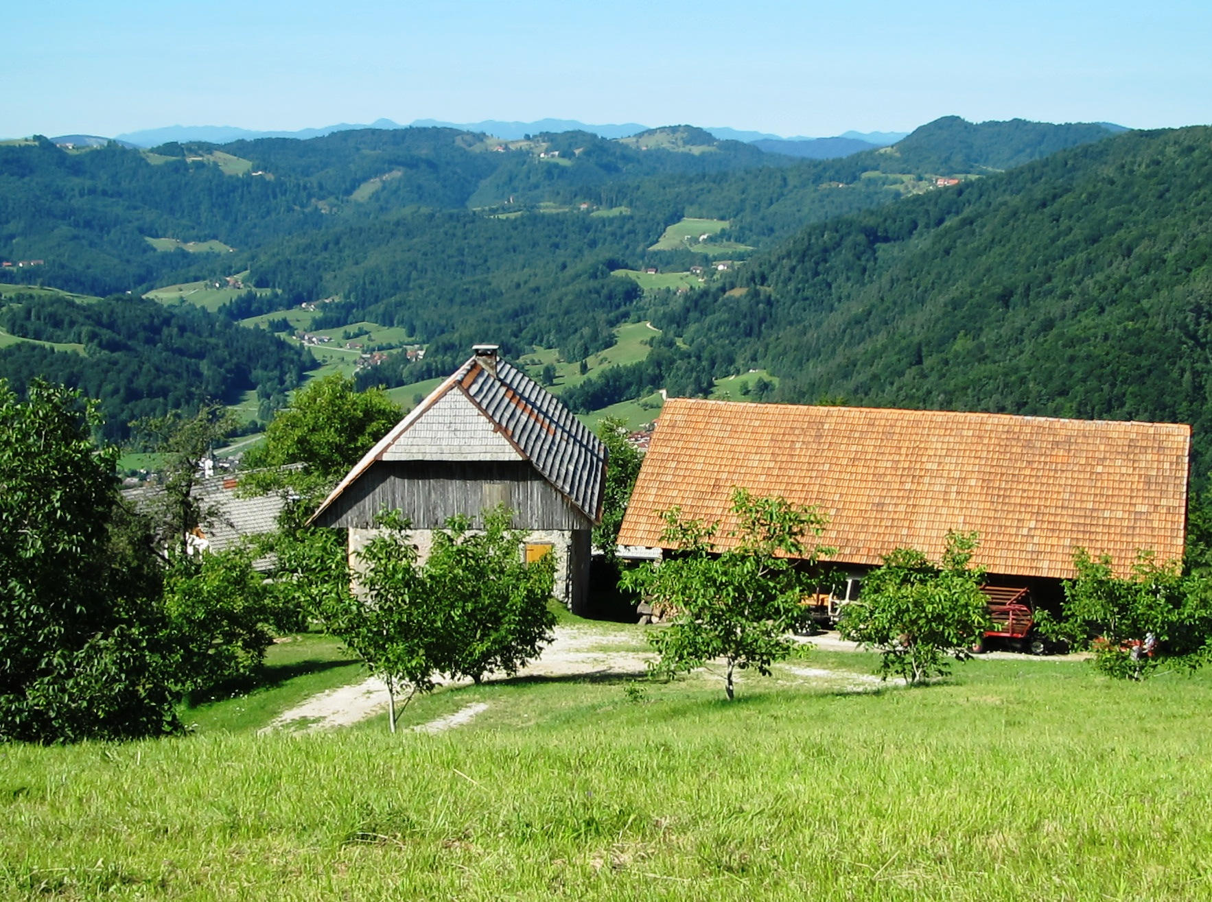 The hamlet of Mežnar in the village of Setnica, Municipality of Dobrova–Polhov Gradec, Slovenia